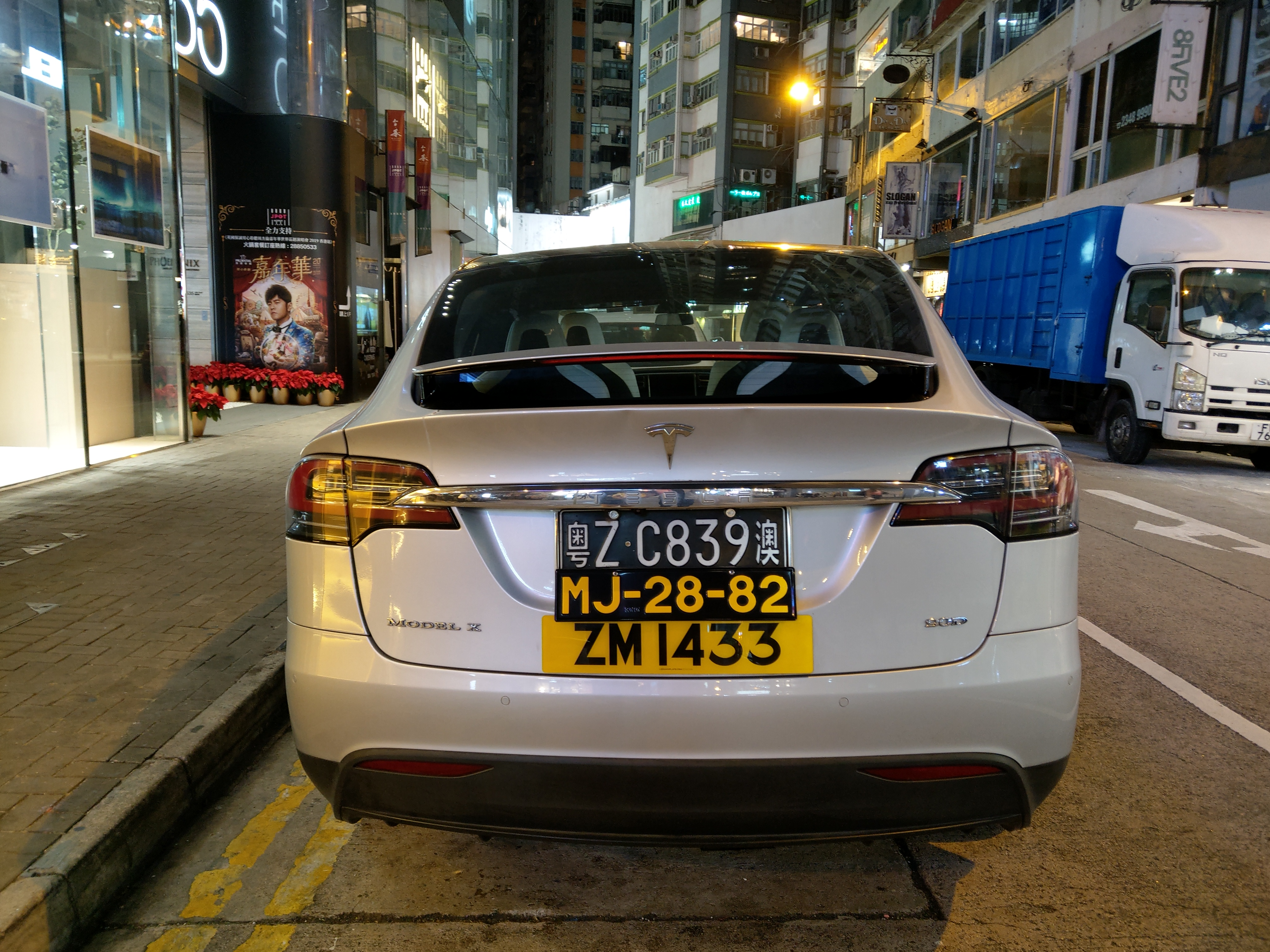 A car licensed to drive in Hong Kong, Macau and Mainland China, photographed in Hong Kong.